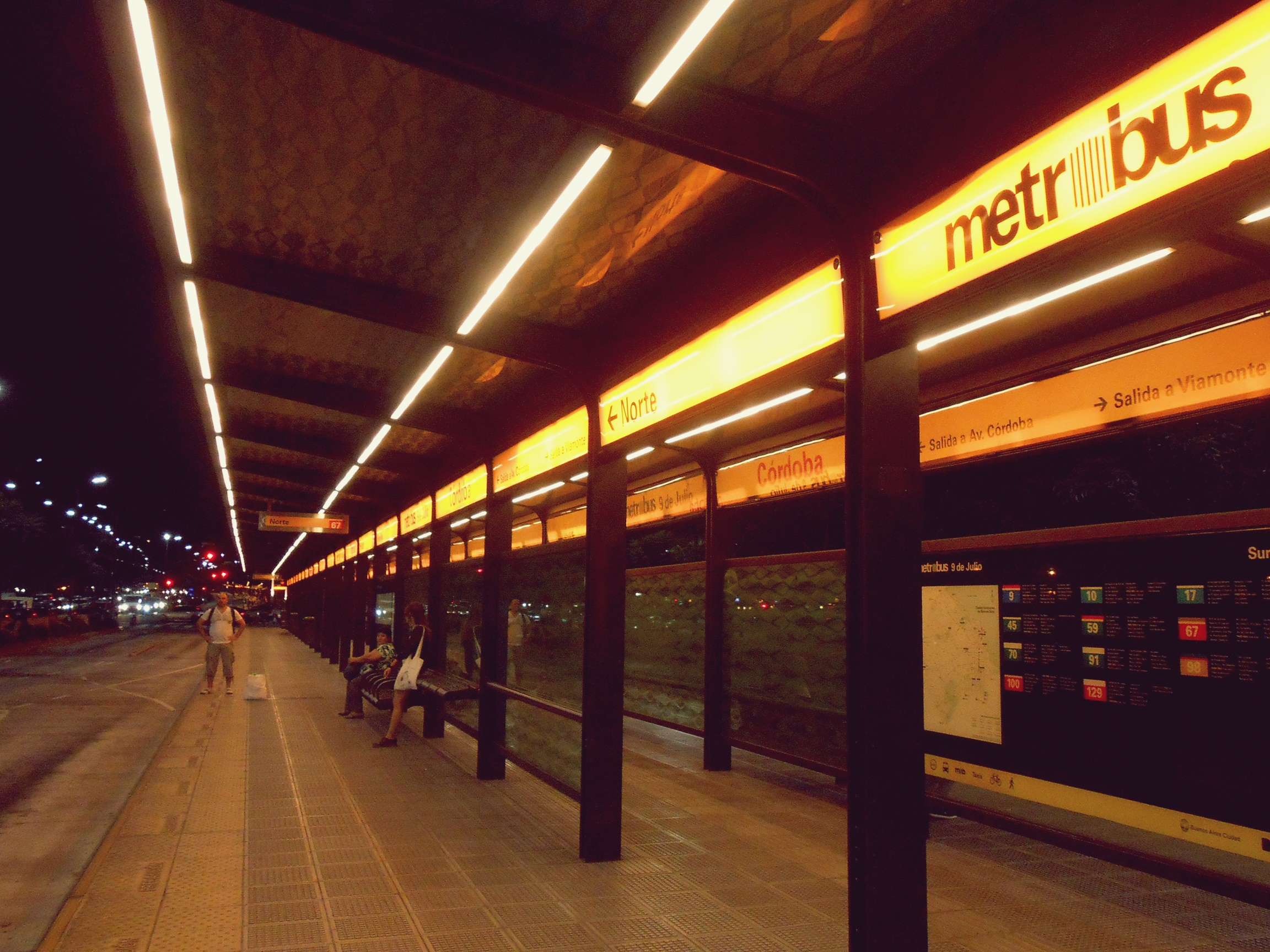 Metrobus Cordoba - Buenos Aires - Argentina